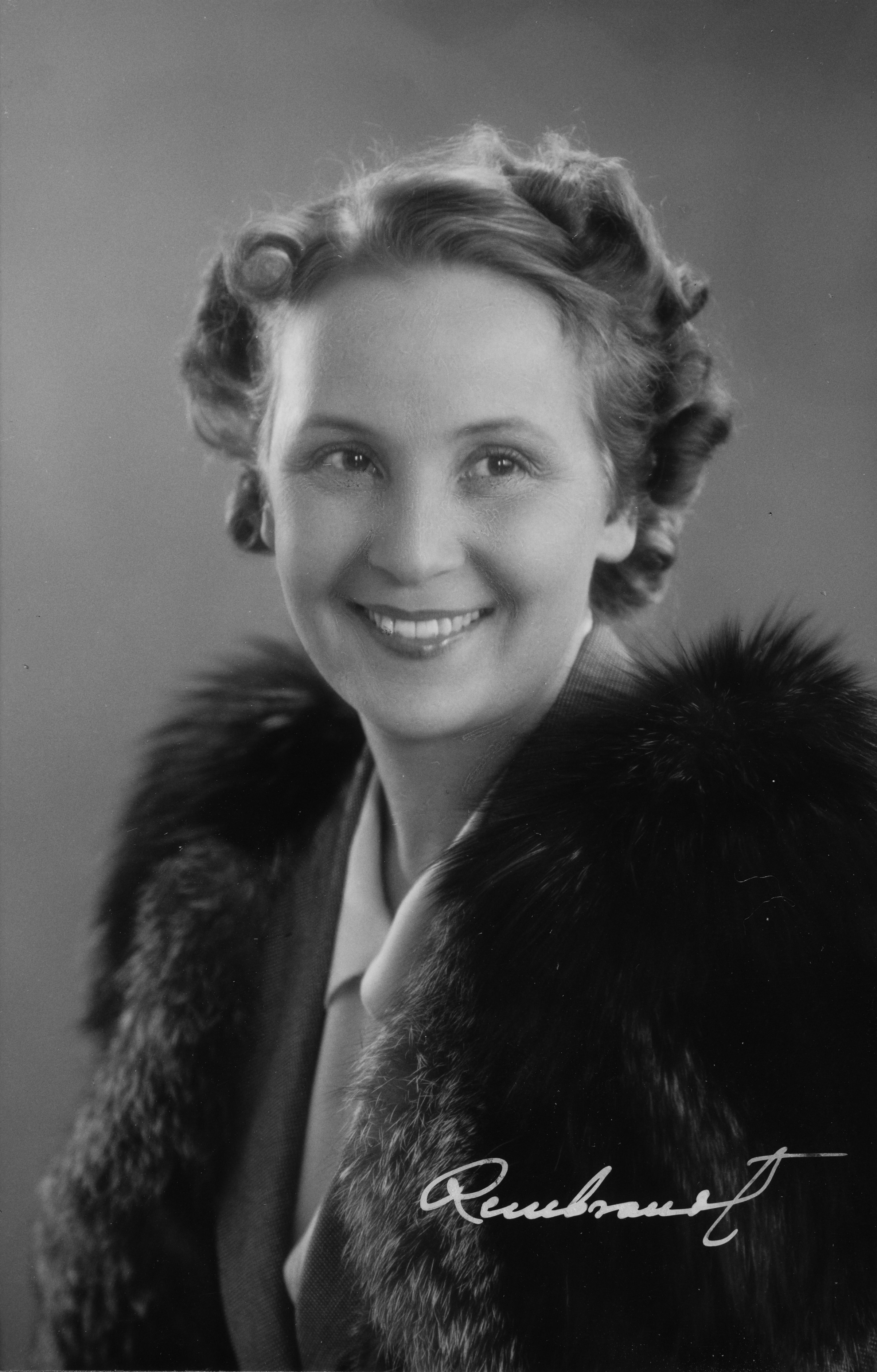 Photograph of the Finnish actor Ritva Aro (1905–1991).